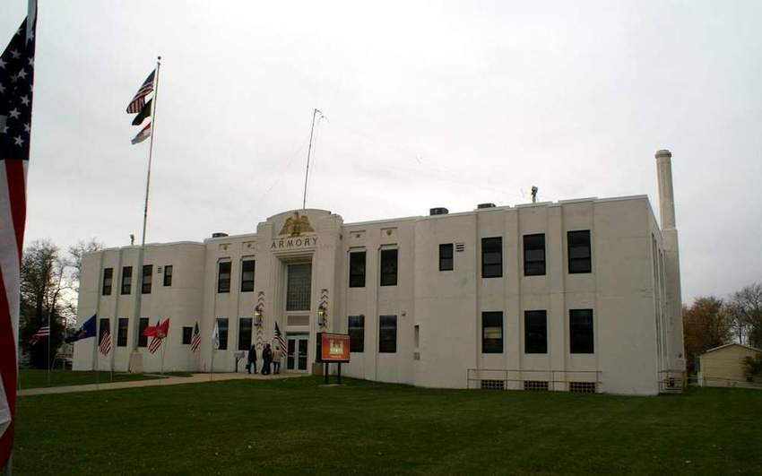 Rieger Armory in Kirksville, Missouri. Photo taken Veterans Day (November 11) 2013. The armory, constructed in the late 1930s, is named in honor of Col. James E. Reiger, a U.S. Army officer and Kirksville native who earned the Distinguished Service Cross, Croix de Guerre, and other medals in World War I.